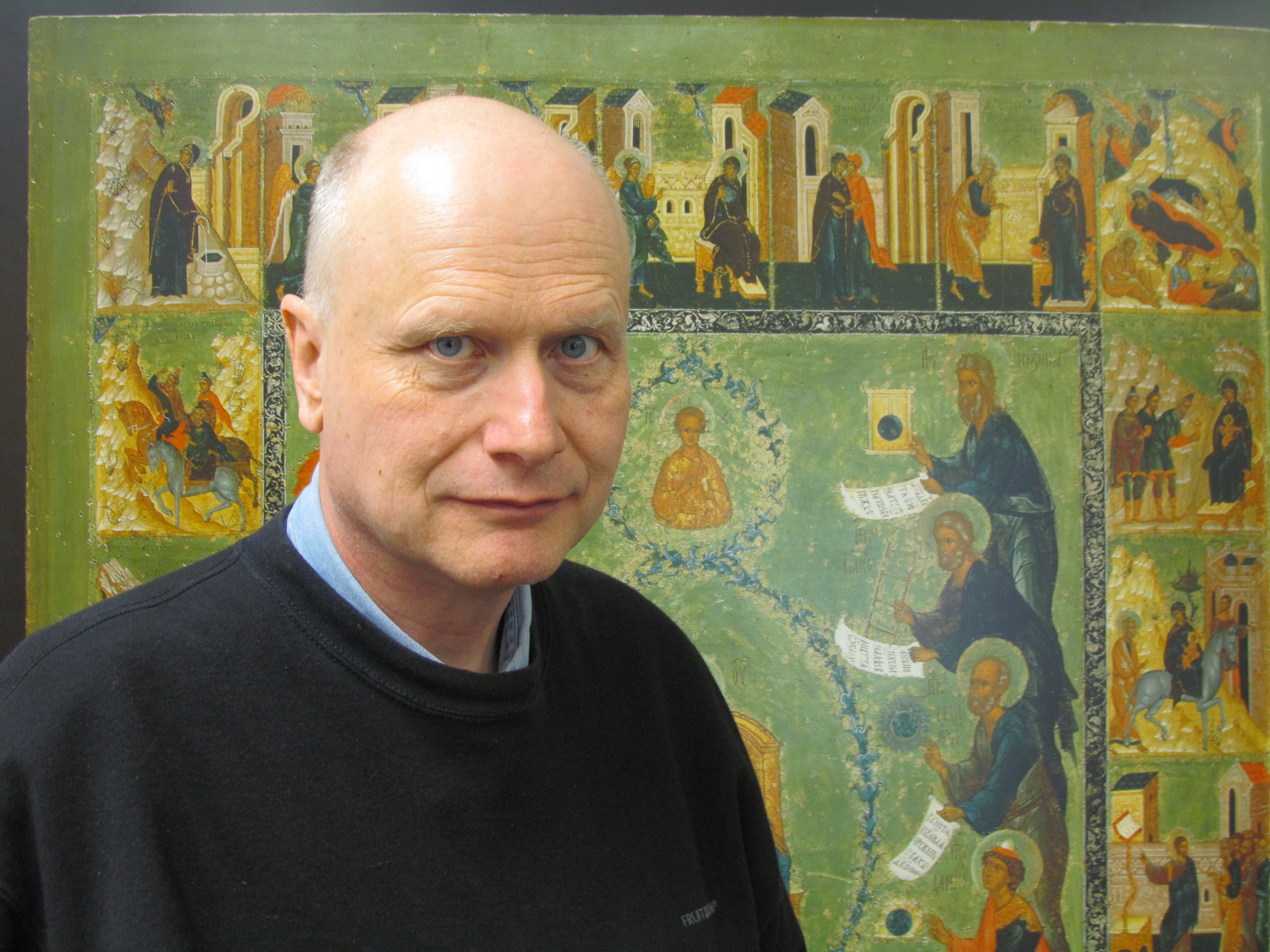 Professor Reinhard Thöle